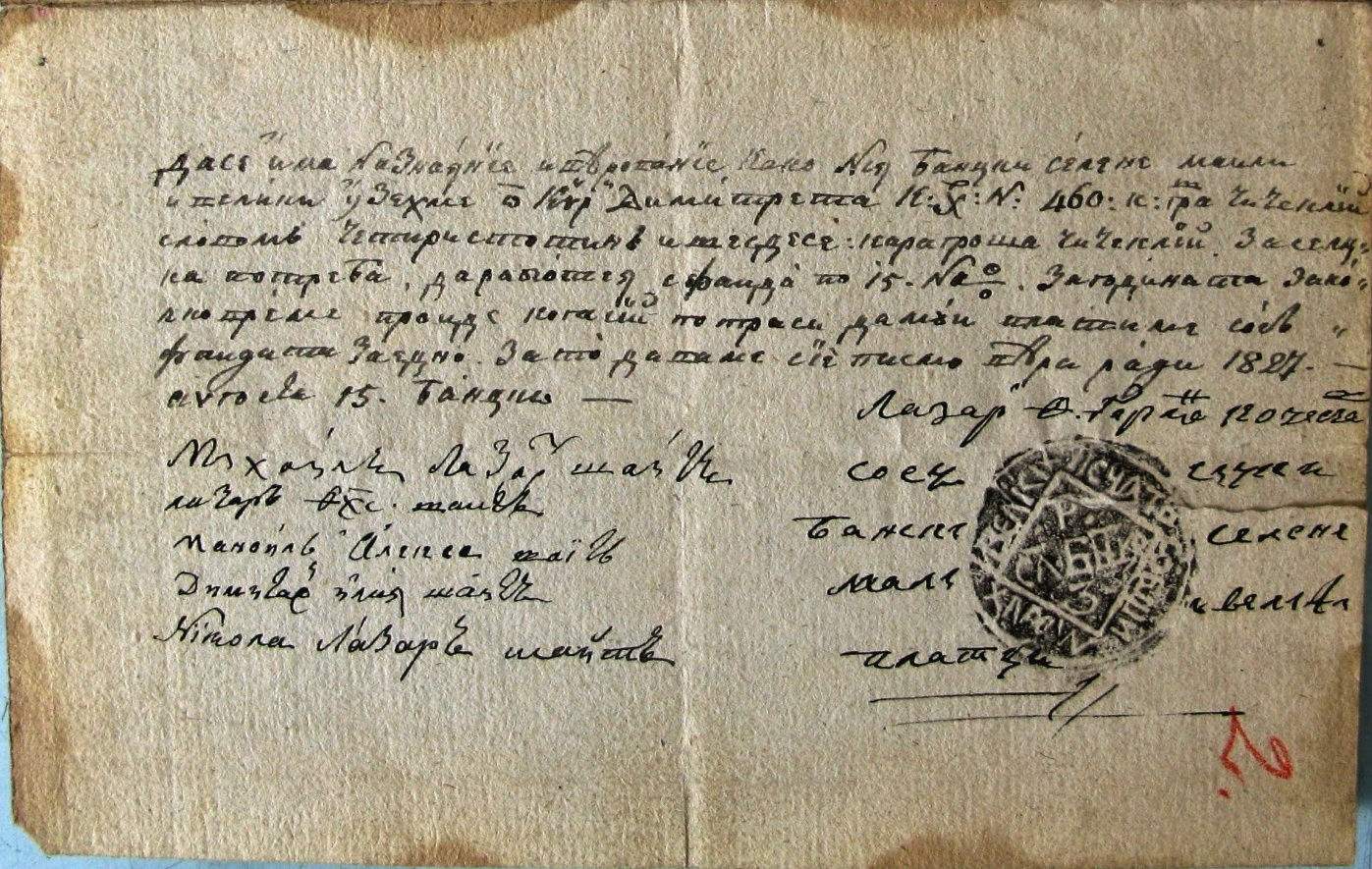 Lazar German 1827 Receipt